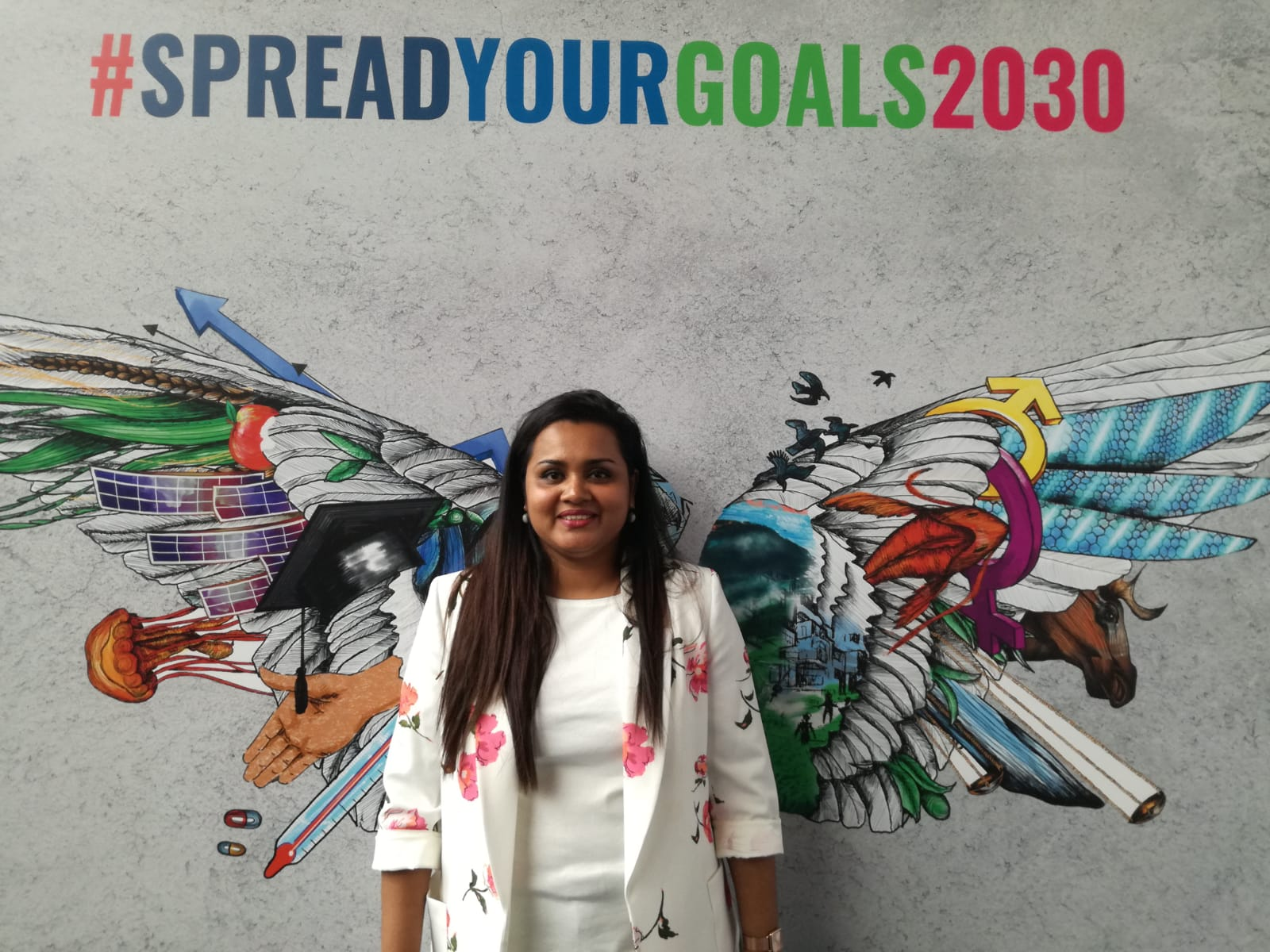 United Nations Secretary-General's Envoy on Youth, Ms. Jayathma Wickramanayake at the European Development Days, 2018, in Brussels